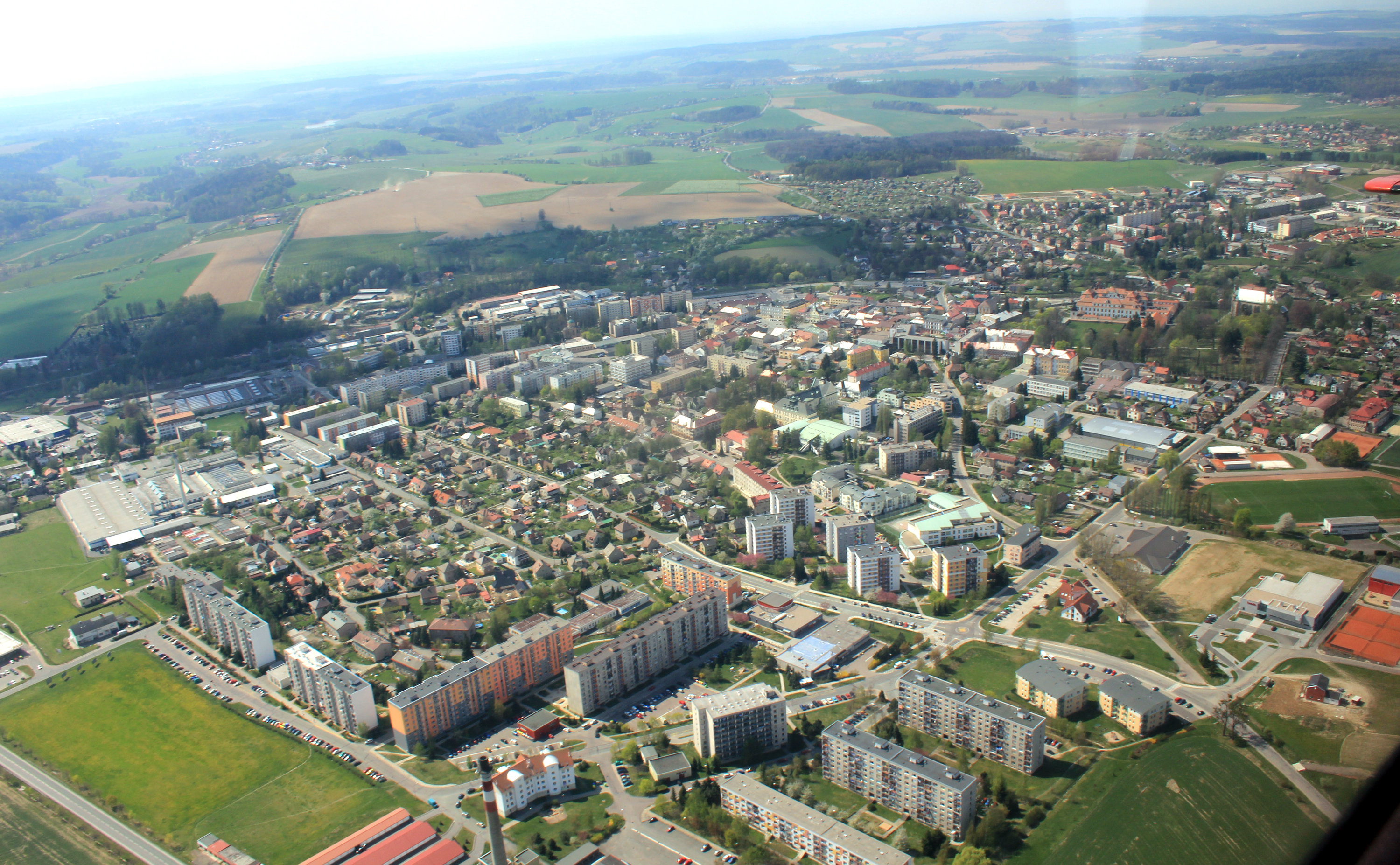 Town Rychnov nad Kněžnou from air, eastern Bohemia, Czech Republic